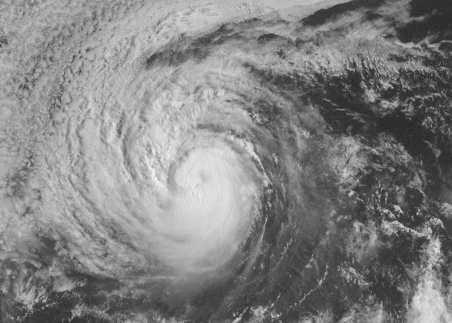 Hurricane Guillermo strengthening in the Pacific on August 14th. Photographed in visible light by GOES East Pacific Floater 3 at 1700Z